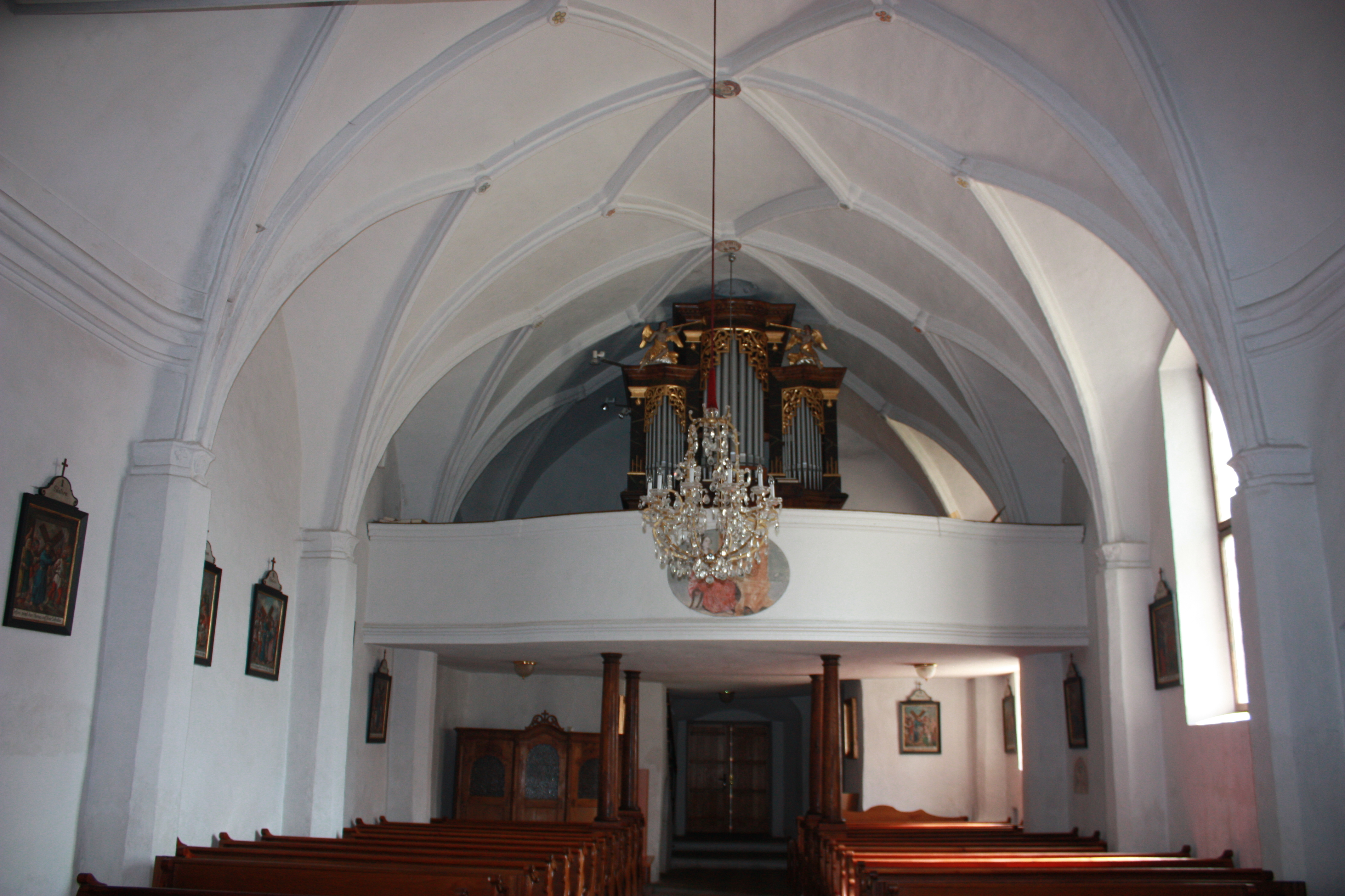 Parish church Conversion of Paul - Interior Locality:Kappel Community:Kappel am Krappfeld